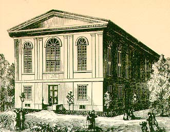 19th Century sketch of the Wagner Free Institute of Philadelphia.